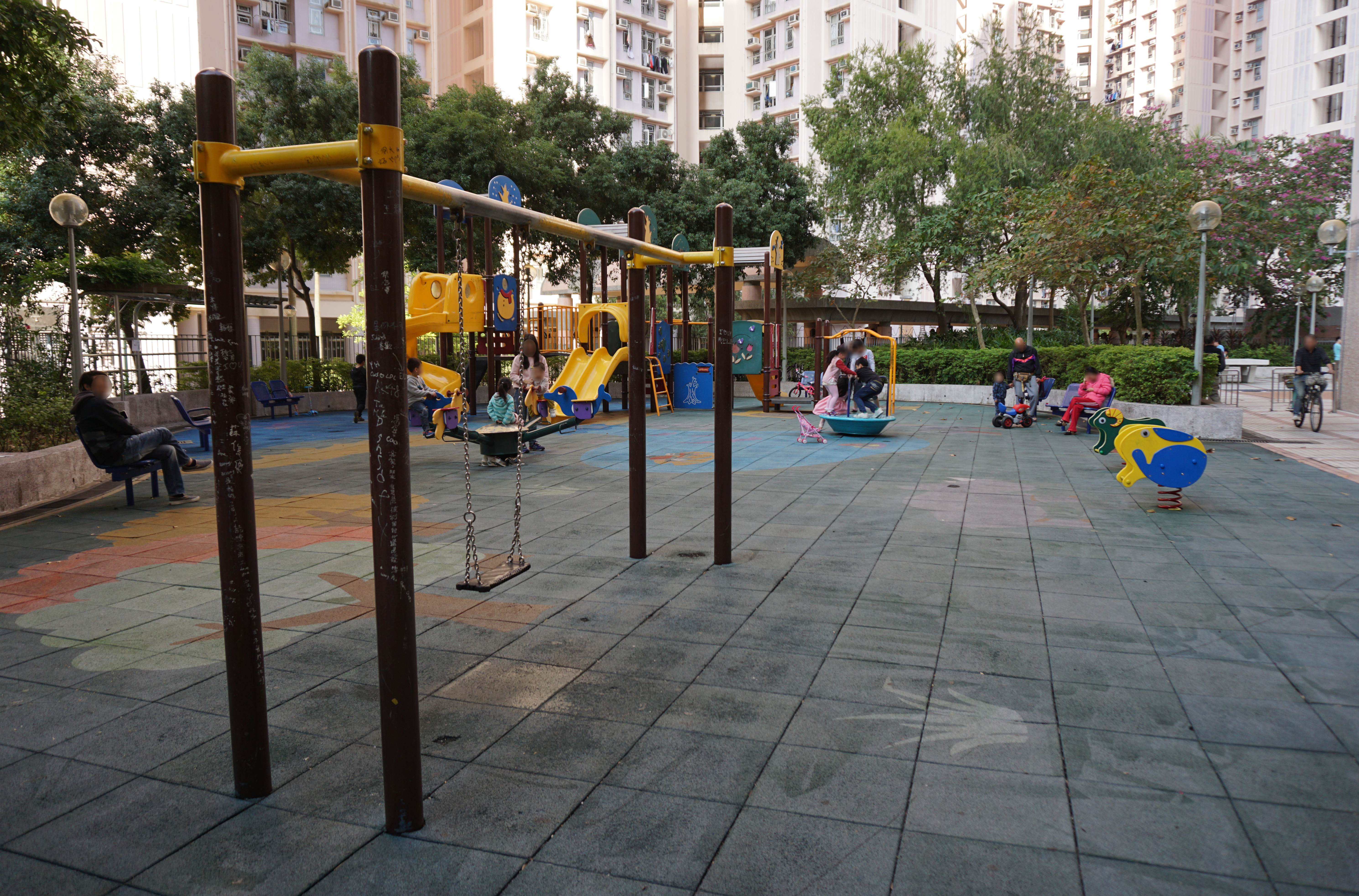 Yung Shing Court in Fanling, Hong Kong.